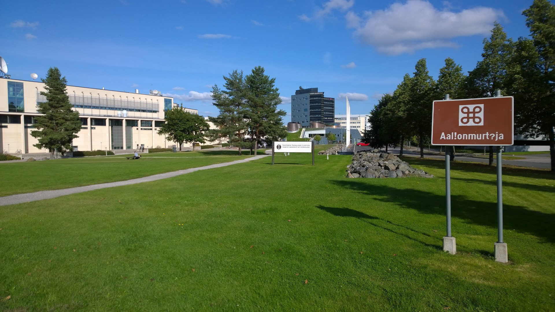 Tampere university of Technology 2015. Tietotalo, Kampusareena and Main Building seen.